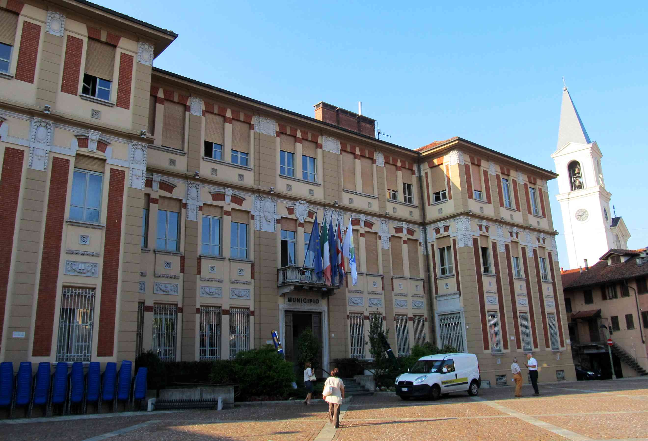 Settimo Torinese (TO, Italy): town hall